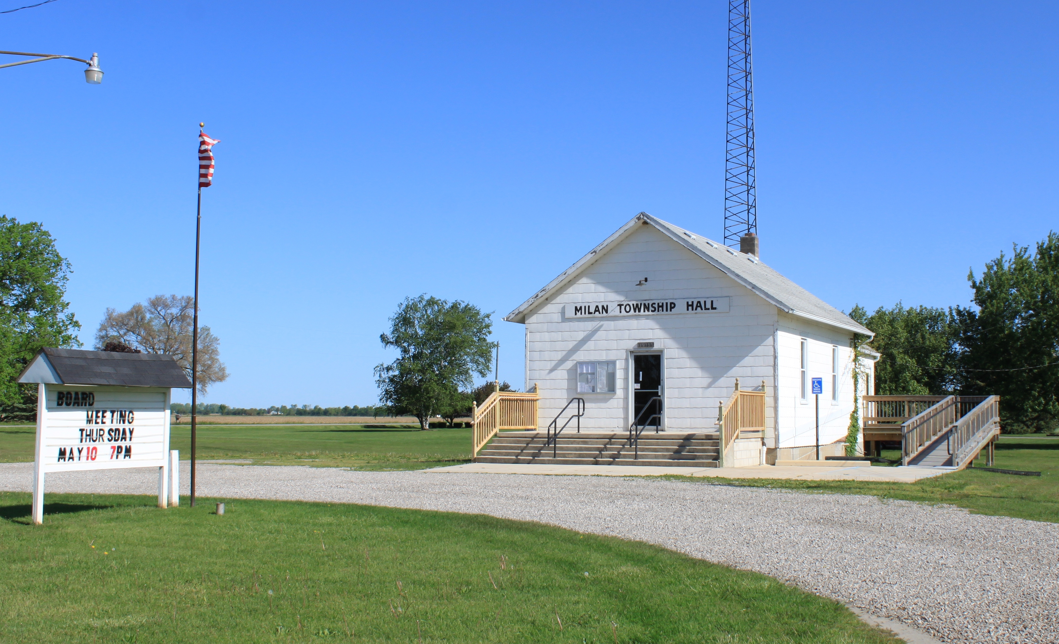 Milan Township Hall, 16444 Cone Road, Milan Township (Milan), Michigan.